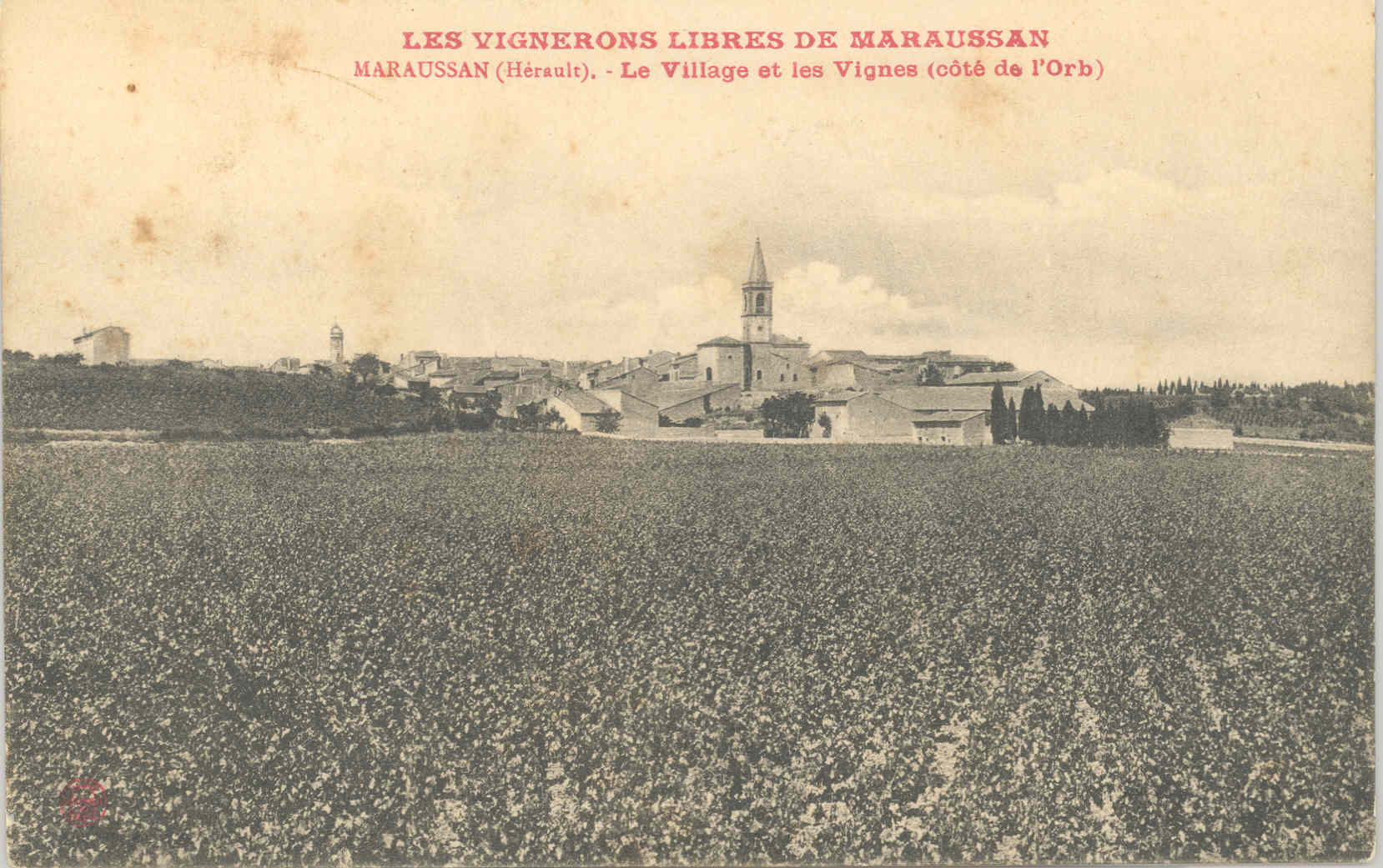 Postcard of France - Département of Hérault(34) - Maraussan - le village et les vignes- unknown Year, approximately 1905